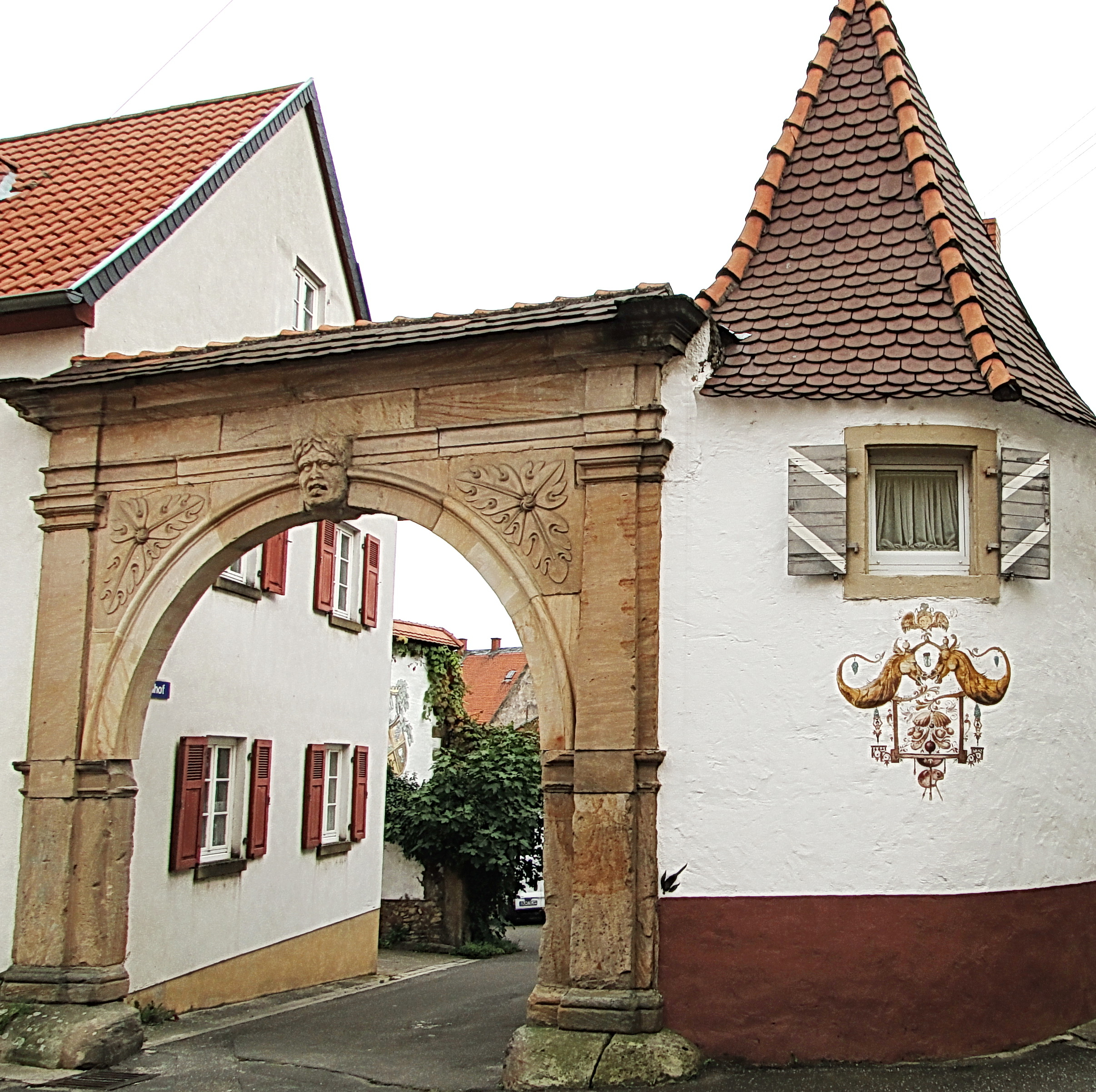 "Am Pfaffentor", the former studio of the German painter Werner Holz in Herxheim am Berg (Palatinate, Germany)